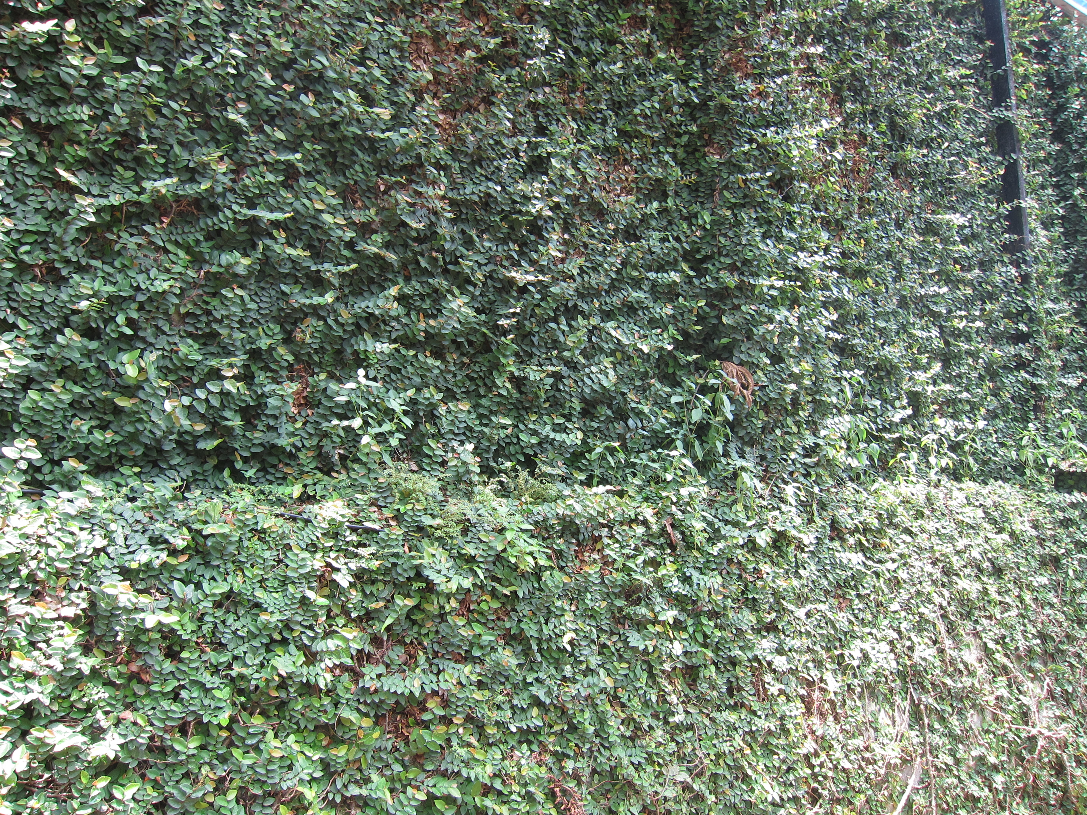 Ficus Pumila മതിൽപറ്റി